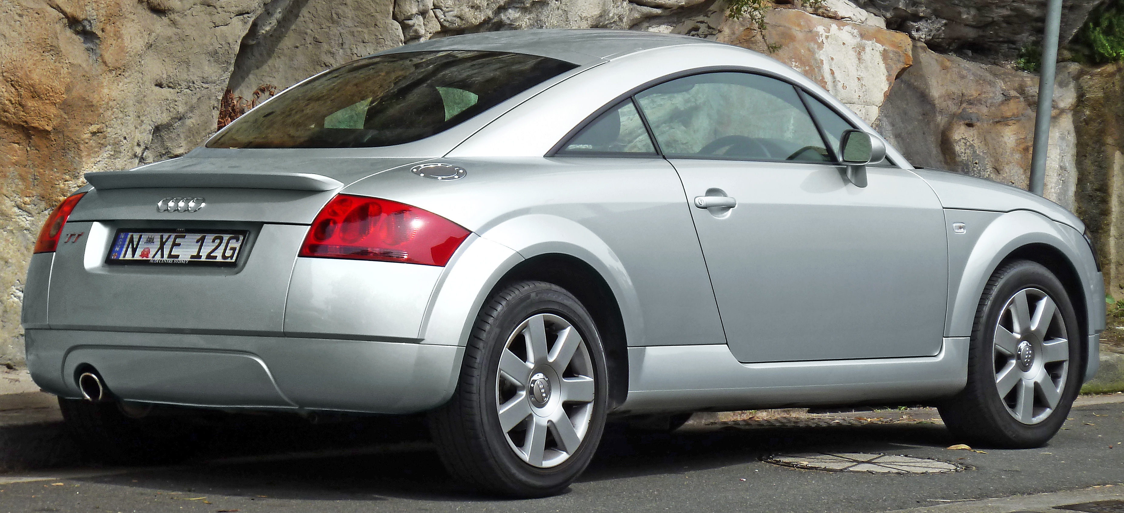 2003–2006 Audi TT (8N) 1.8 T coupe. Photographed in Woolloomooloo, New South Wales, Australia.